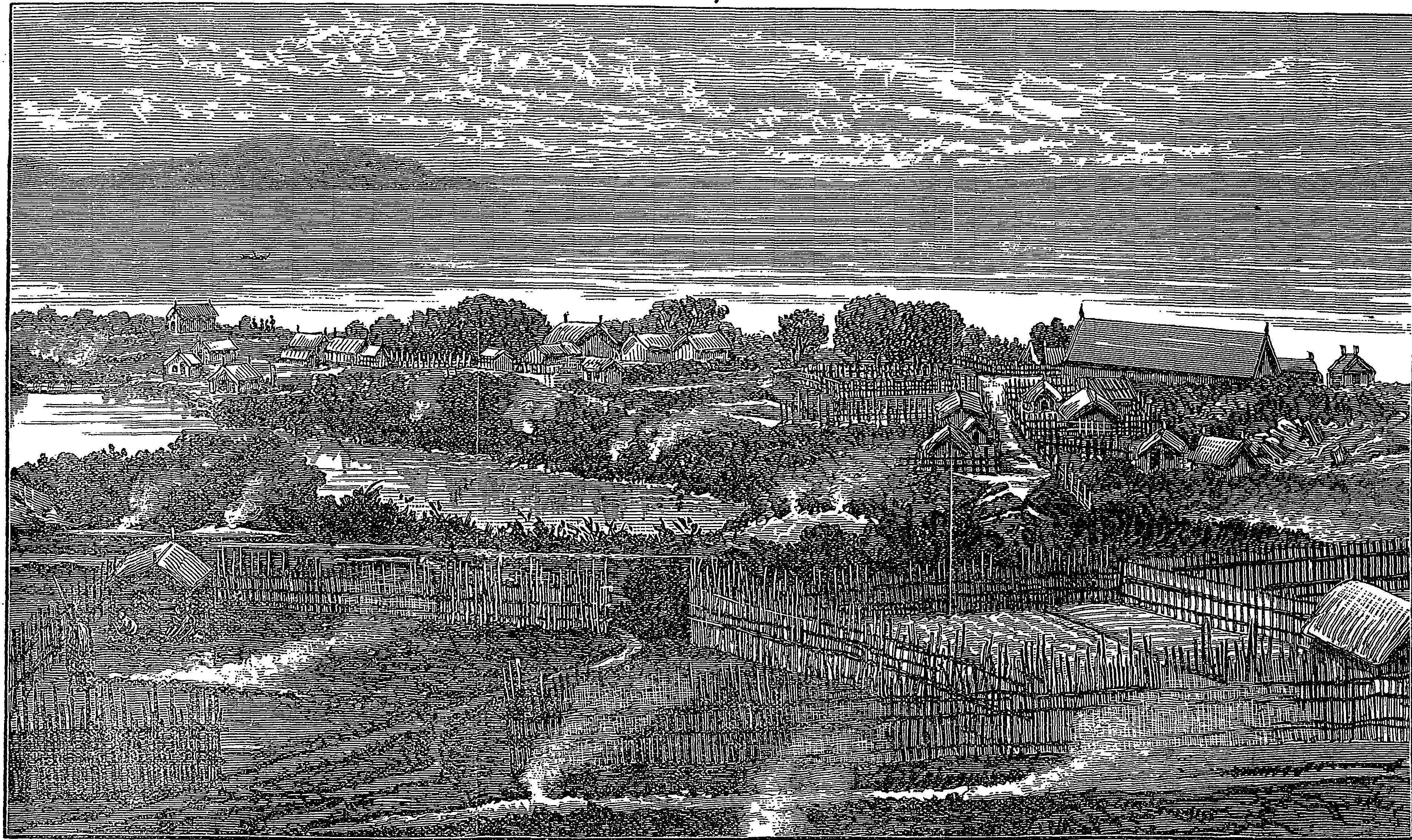 Drawing of the village of Ohinemutu